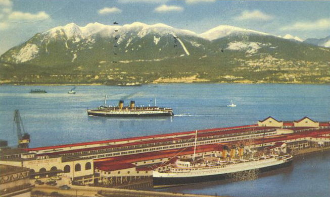 Vancouver, B.C., Canada C.P.R. Pier ; North Shore, Ski Lift, C.P.R. Steamer sailing for Victoria & Seattle, Wash. V.N. 5